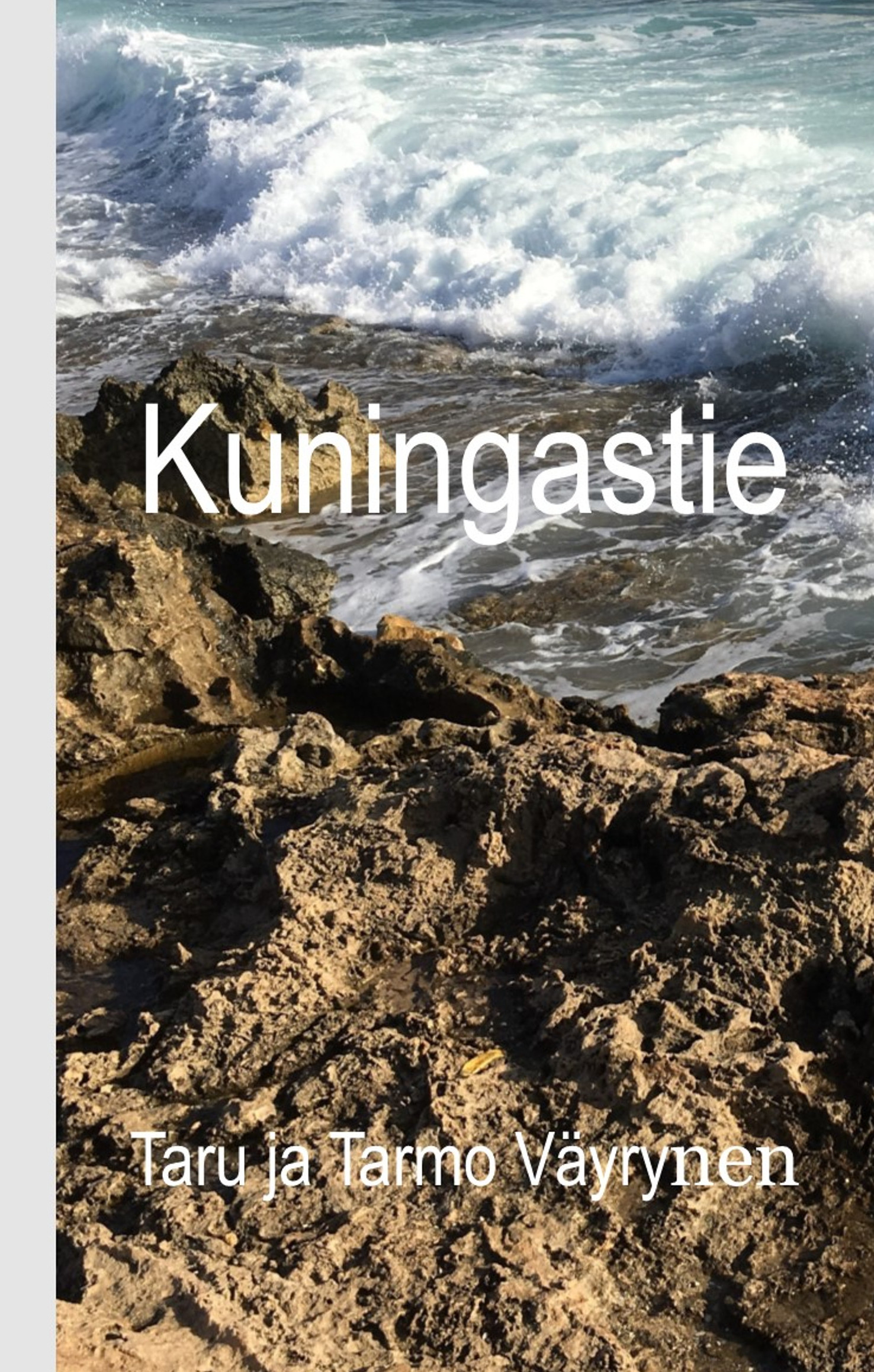 Kuningastie